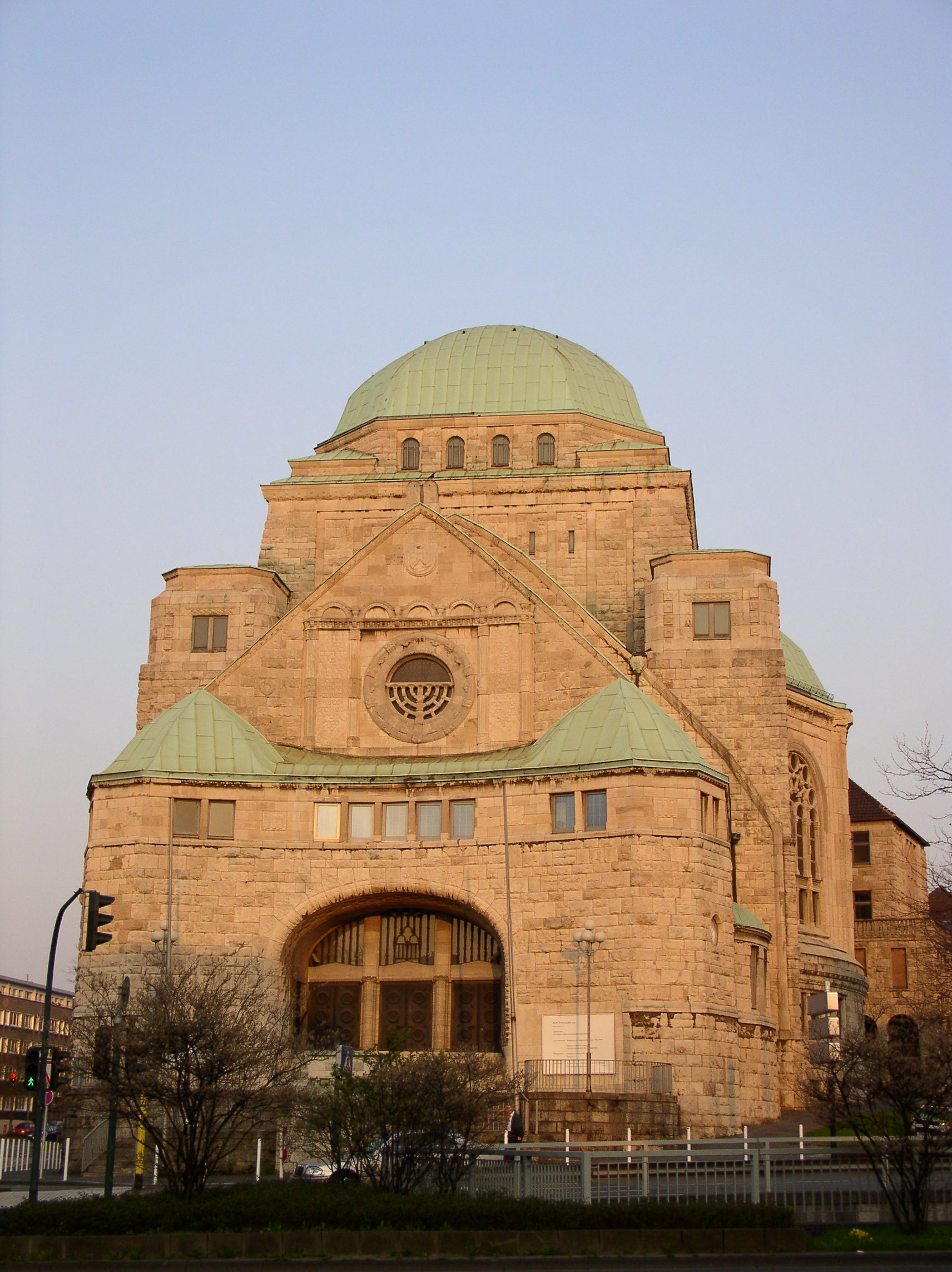 Description: Alte Synagoge in Essen (Frontansicht) Source: photo taken by me, March 2005 Photographer: Baikonur